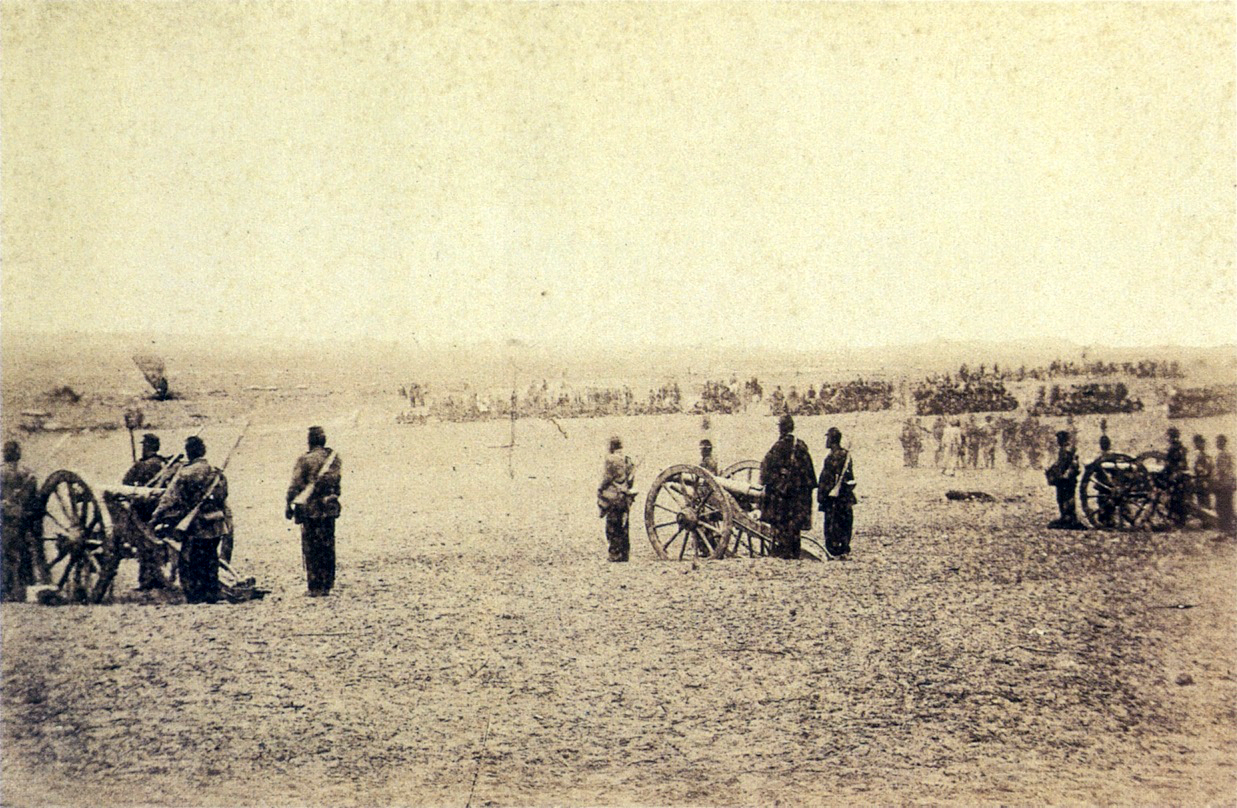 First photograpy of the Uruguayan artillery in the Battle of Potrero Sauce, with allied troops in the backgroung marching toward the battlefield